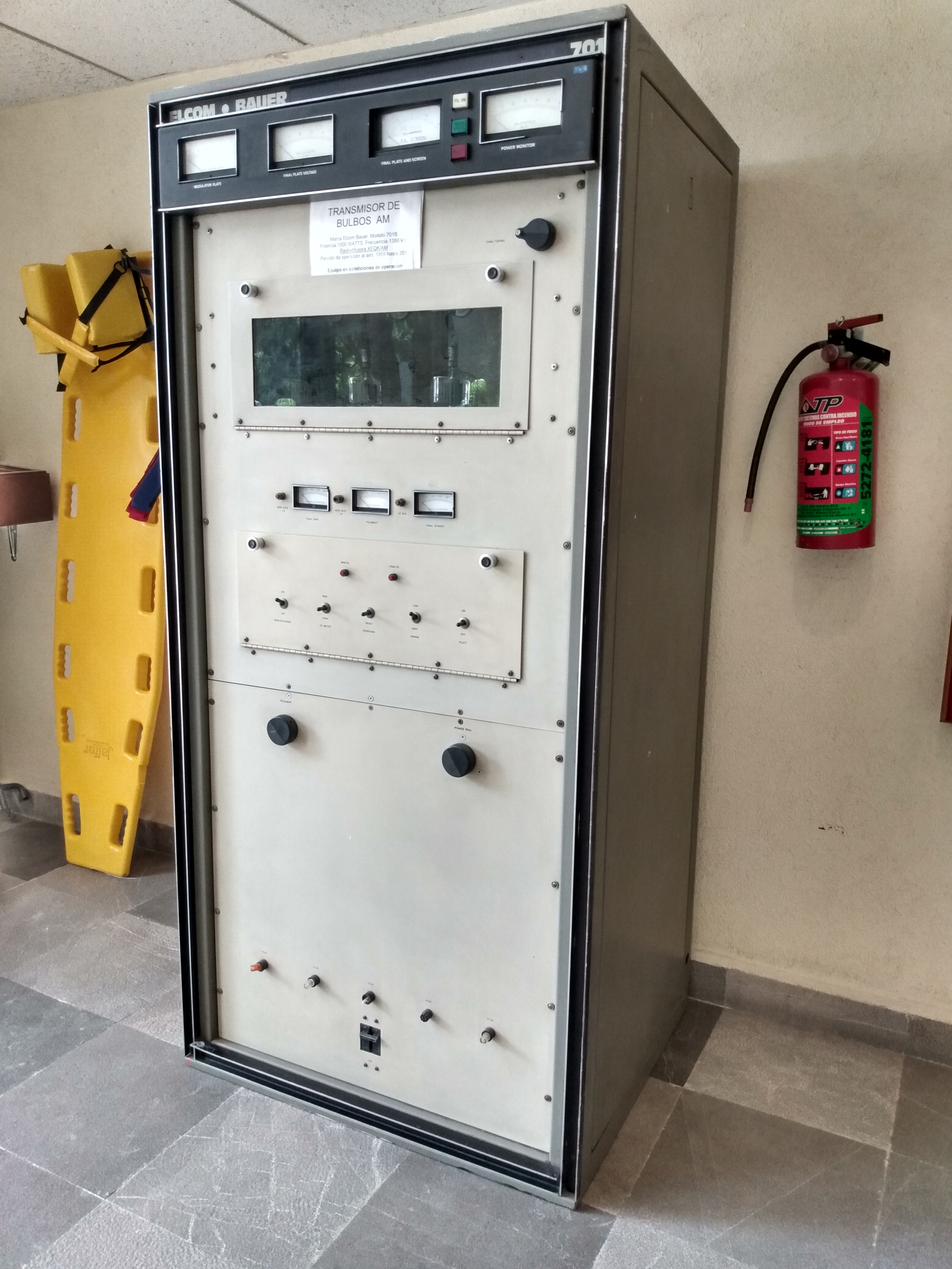 Elcom Bauer AM bulb transmitter model 701B. Used between 1955 and 2001. Mexican Radio Institute offices, Coyoacán, Mexico.